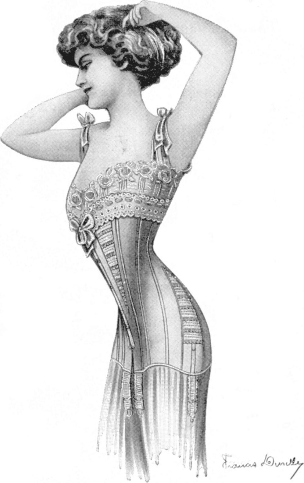 A woman in corsette, French mag illustration, Les Dessous Elegants, Mars 1910